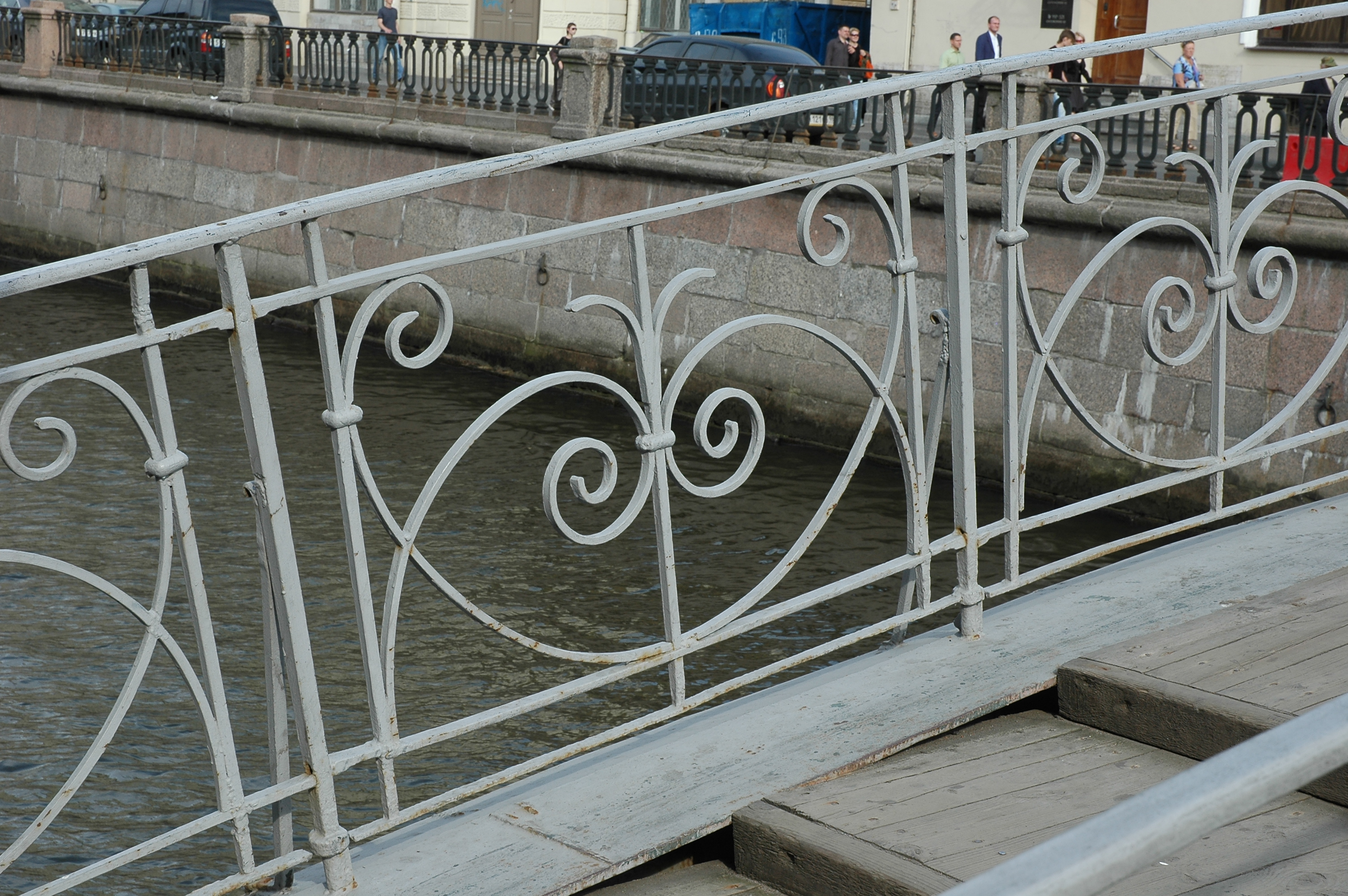 Muchnoi bridge across Griboedov Canal in St Petersburg, Russia (fence)